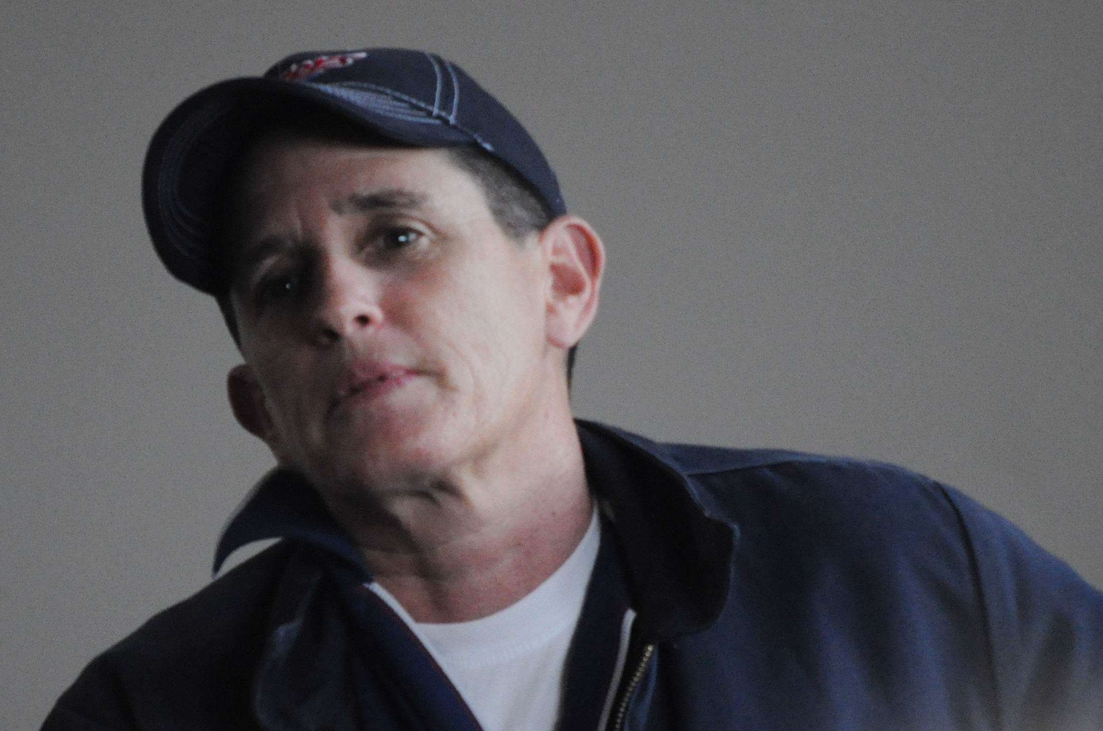 Singer-songwriter Phranc, at Work It! a conference at USC on gender, race, and sexuality in pop music professions presented in association with the 2011 Pop Conference at UCLA.